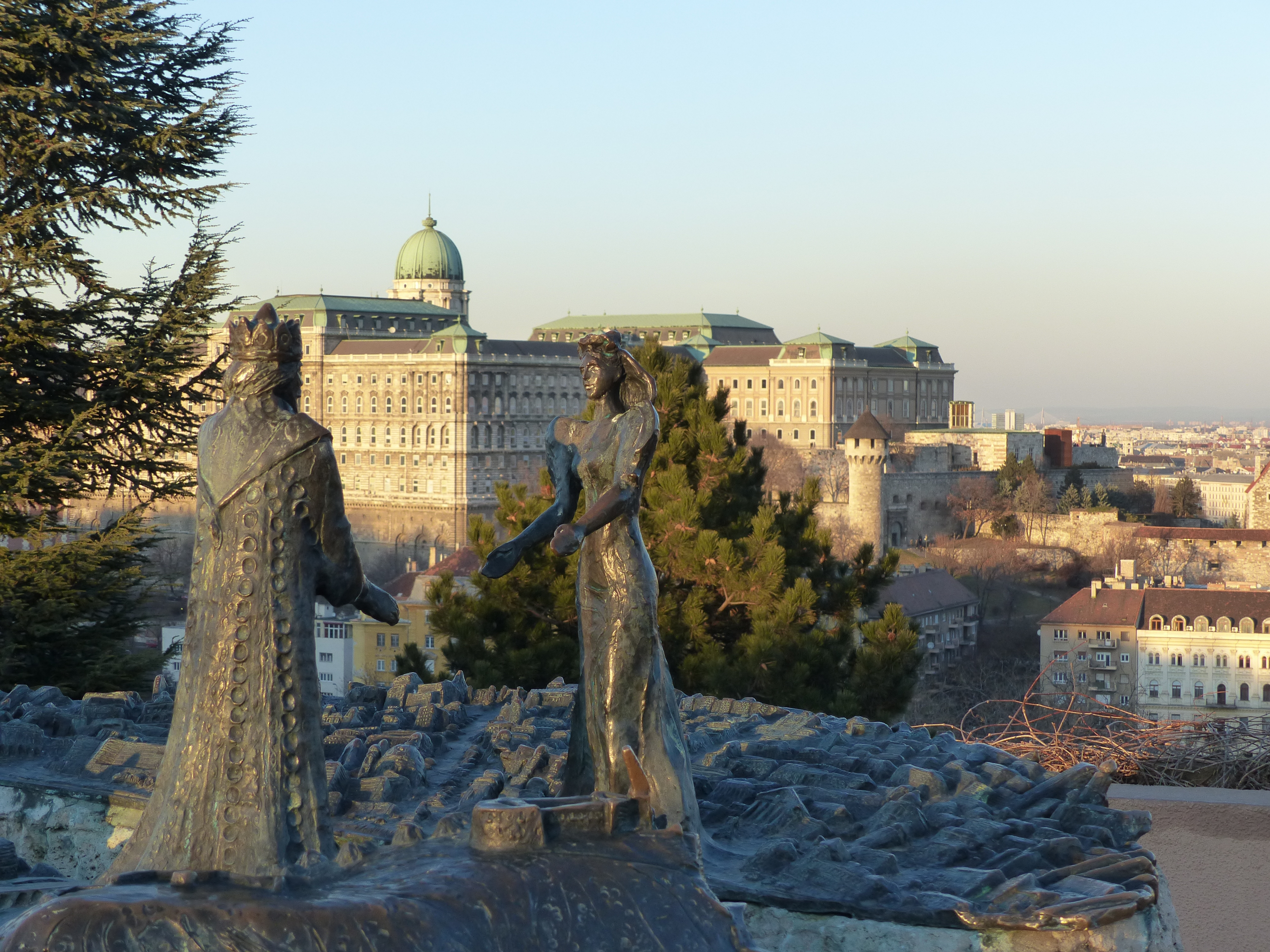 Taken 29th of December, 2016. On top of the Gellérthegy vater pool. Statue of Prince Buda and Princess Pest. Made by Vadász György. Prince and princess of the town, Buda and Pest in eternal love thought parted by the river Danube. The City beneath us.